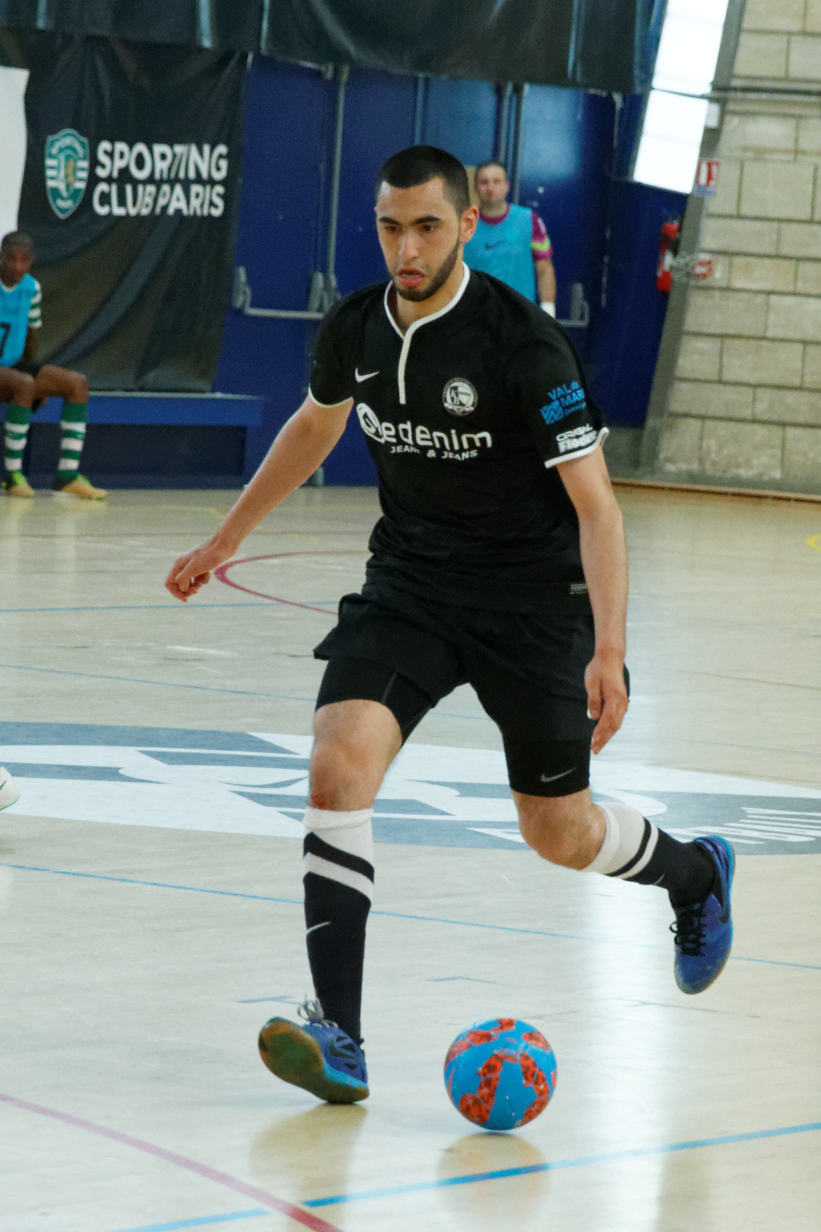 France futsal championship. Play-off. Sporting Club de Paris vs Kremlin-Bicêtre United.